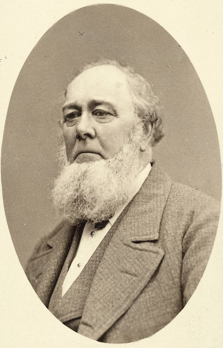 Charles C. Rich, an early leader in the Latter Day Saint movement and an apostle of The Church of Jesus Christ of Latter-day Saints (LDS Church). Albumen print, 2.375 × 3.875 in.